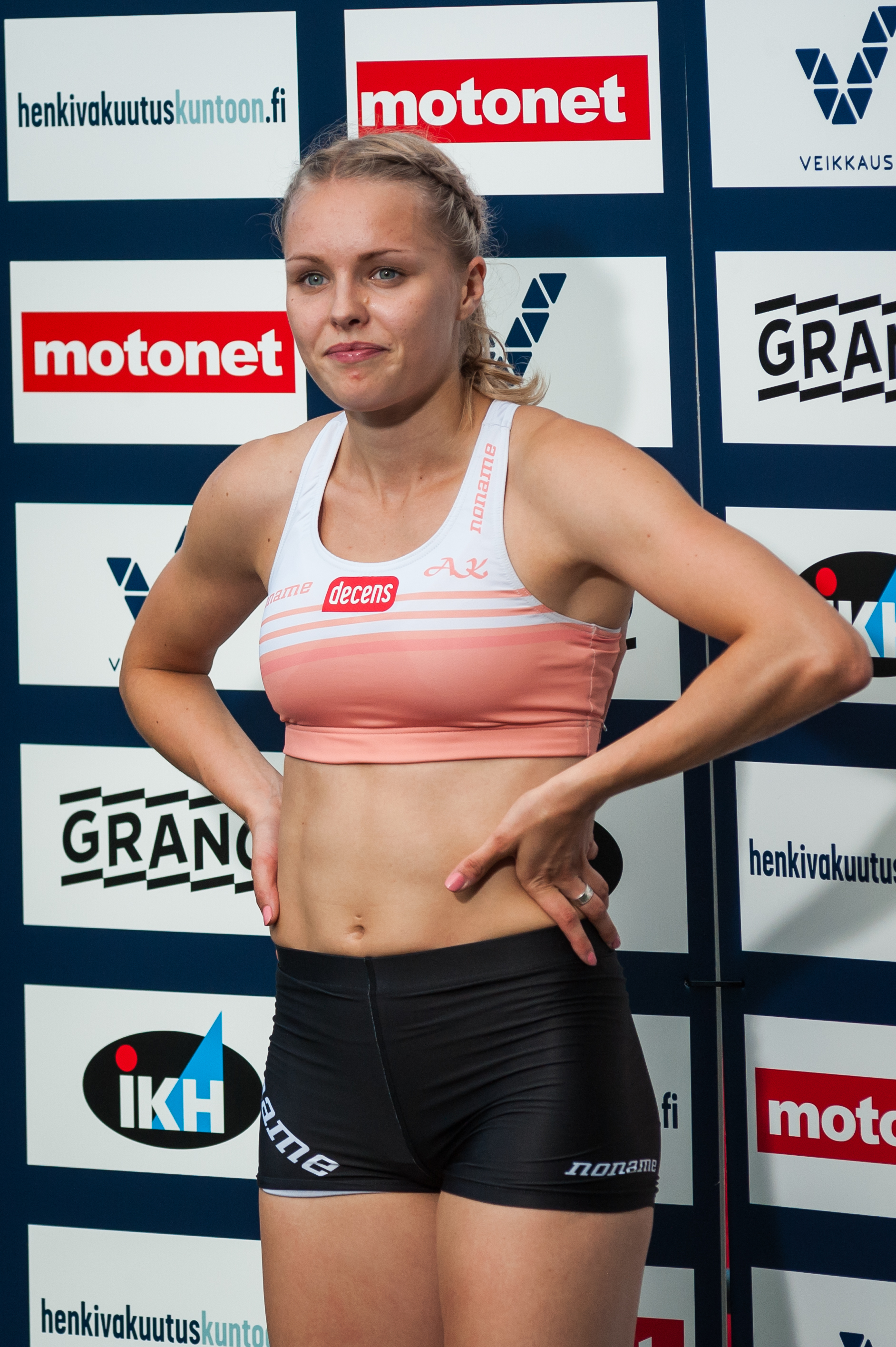 Women's 100 m competition at the 2018 Kalevan Kisat, the Finnish championships in athletics, in Jyväskylä, Finland.